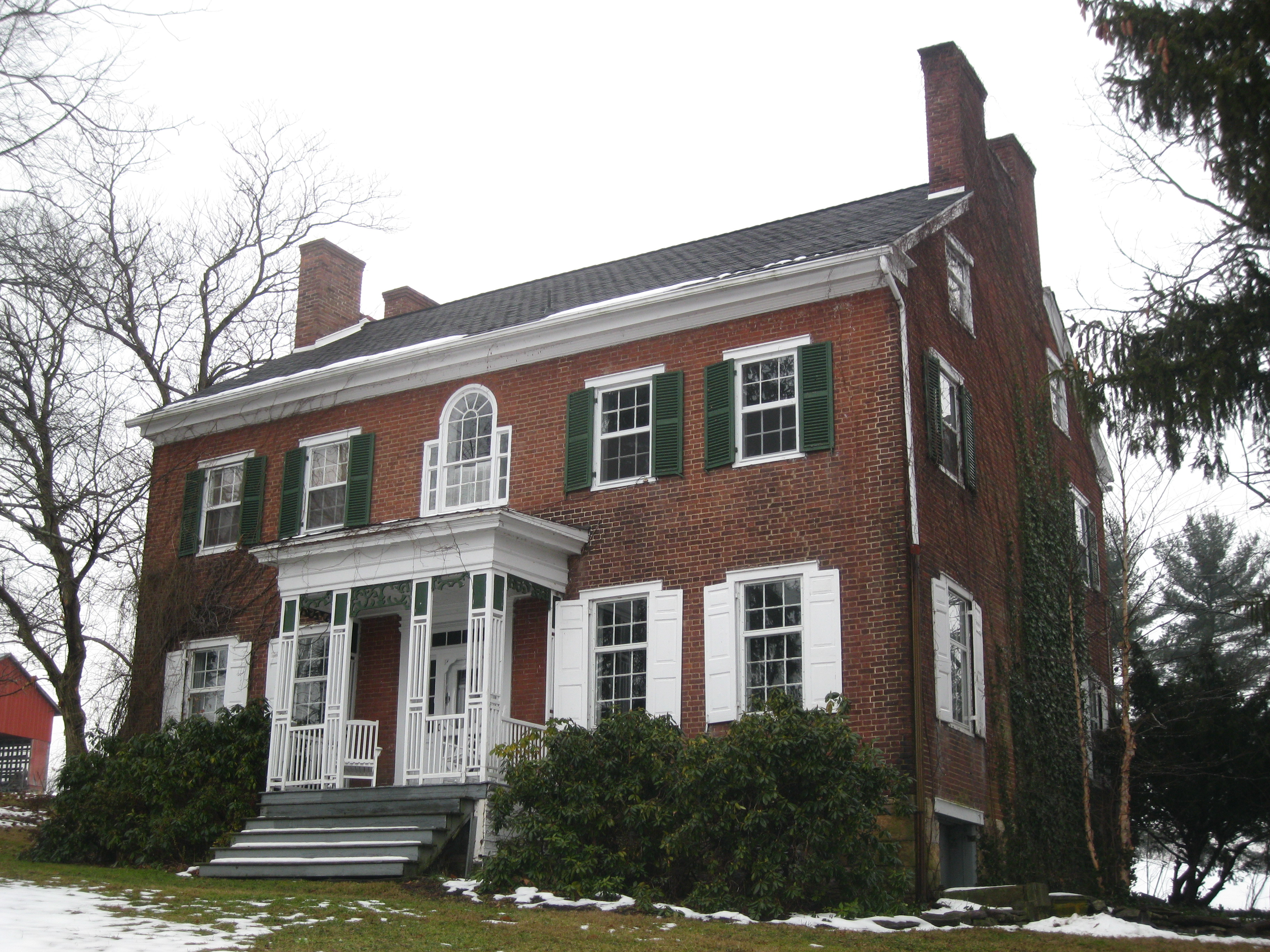 Christian Bechdel II House built 1831 on Marsh Creek in Liberty Township, Centre County, Pennsylvania, USA. Listed on the National Register of Historic Places in 1982.